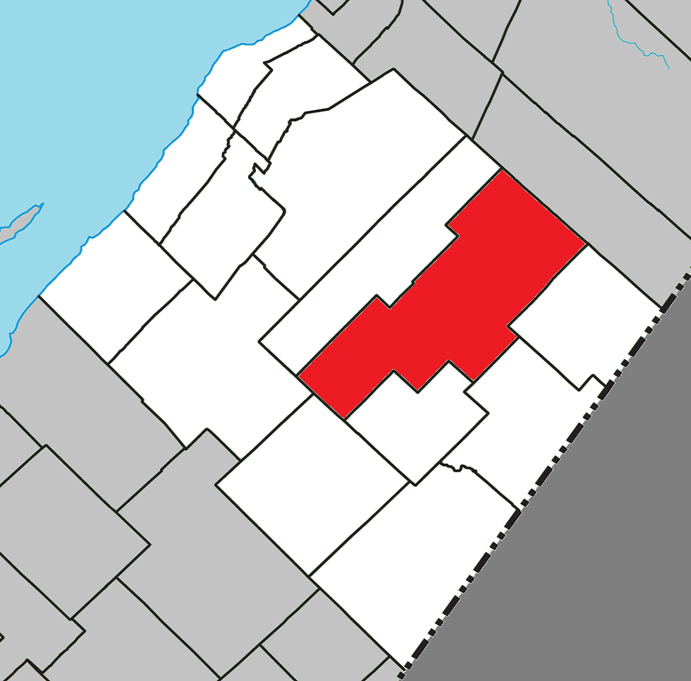 Location of Sainte-Perpétue, Quebec within L'Islet Regional County Municipality.